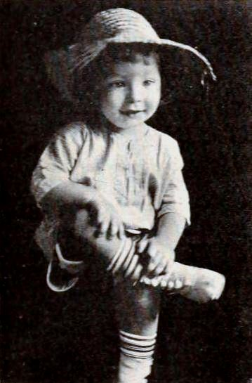 Child actor Don Marion, on page 55 of the January 10, 1920 Exhibitors Herald.